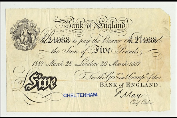 Bank of England 1887 £5 banknote.